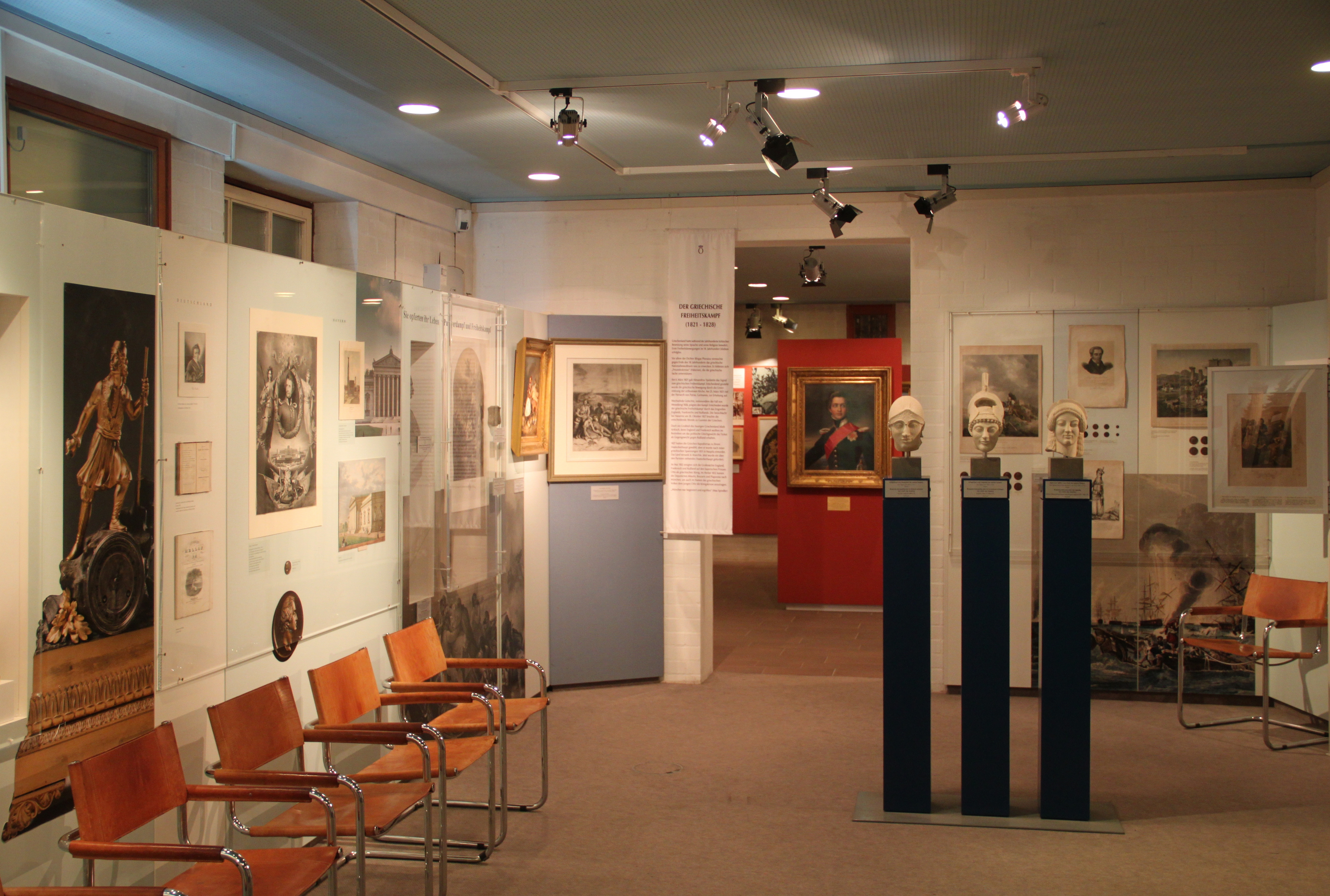 Ottobrunn: Otto King of Greece Museum (interior)